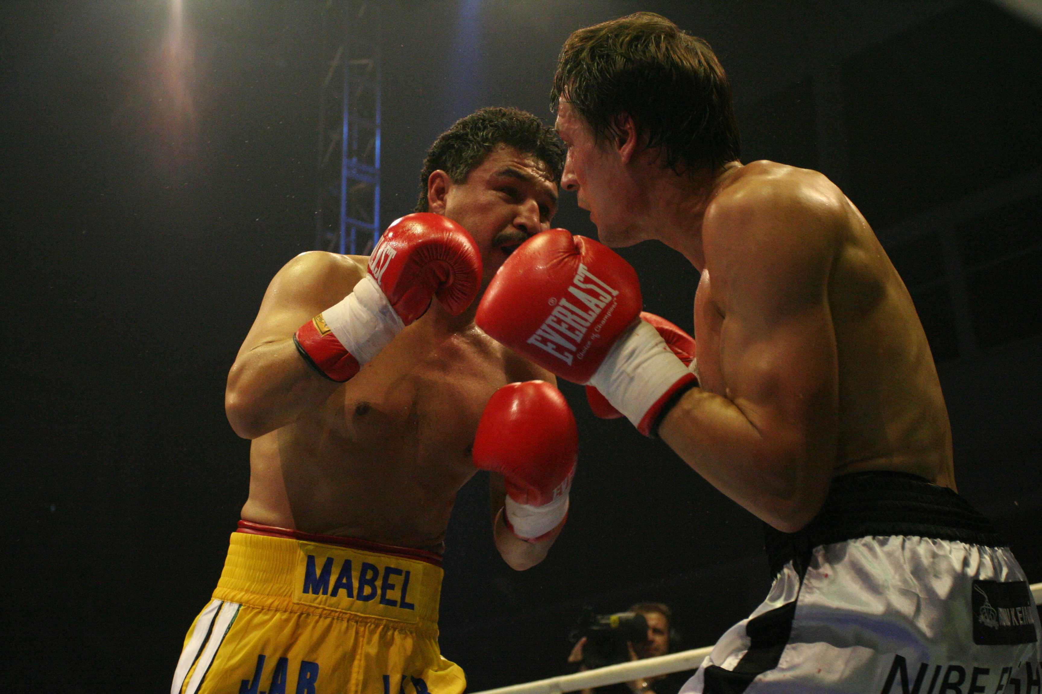 Professional boxers Alan Peralta "Yori Boy" Campas, Mexico, and "Idi" Amin Asikainen, Finland, in Helsinki, Finland in february 2008. Photo by Jonny Smeds.